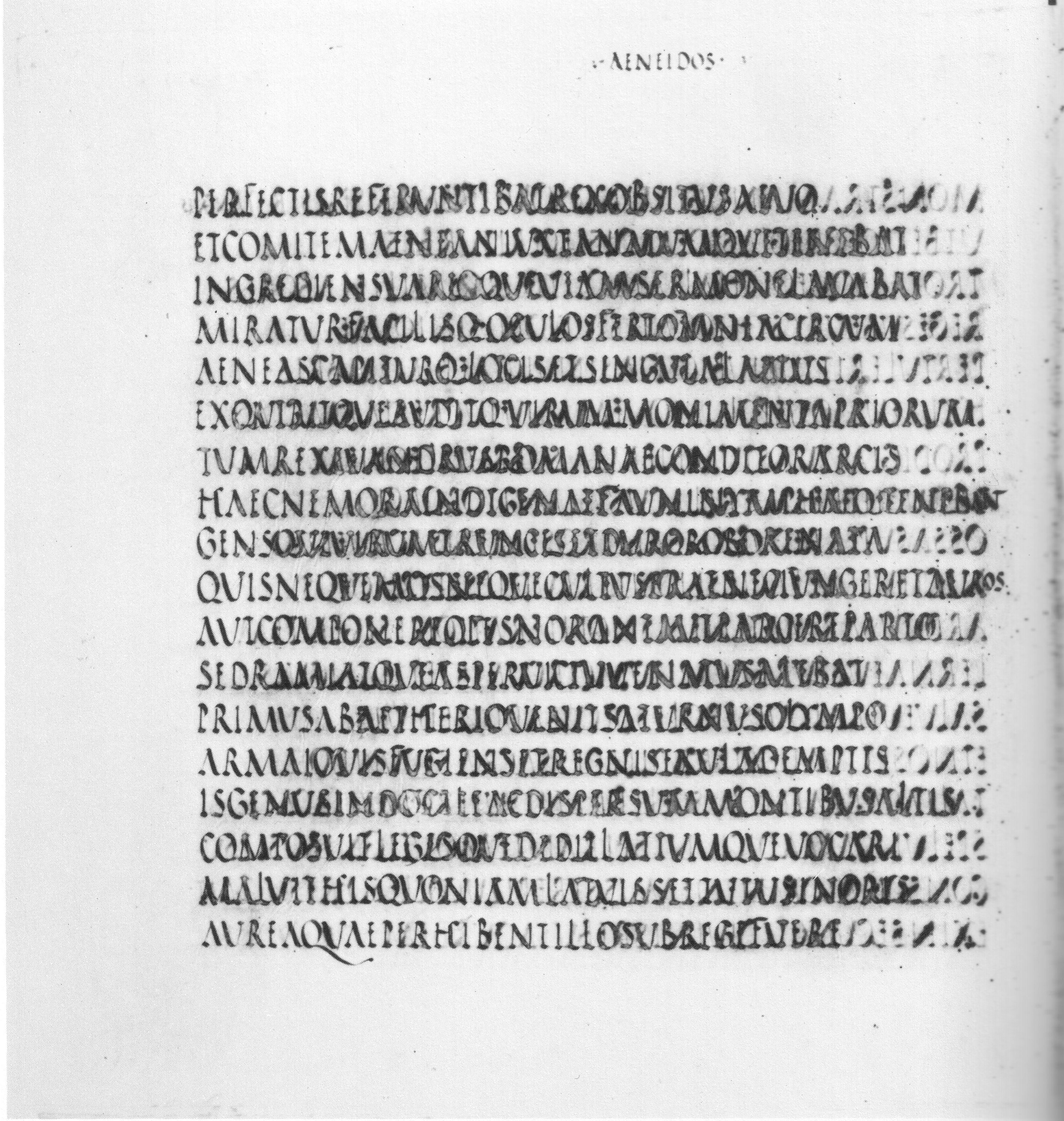 Virgil’s Aeneid VIII, 307–324 in Vaticanus latinus 3867, folium 197 verso.